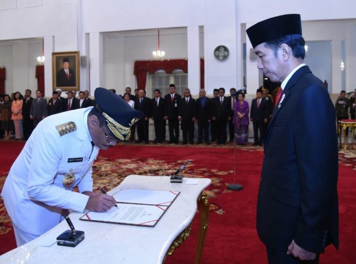 Indonesian president Joko Widodo and Governor of Jakarta Djarot Saiful Hidayat during the latter's swearing in following removal of the previous governor Basuki Tjahaja Purnama from office.